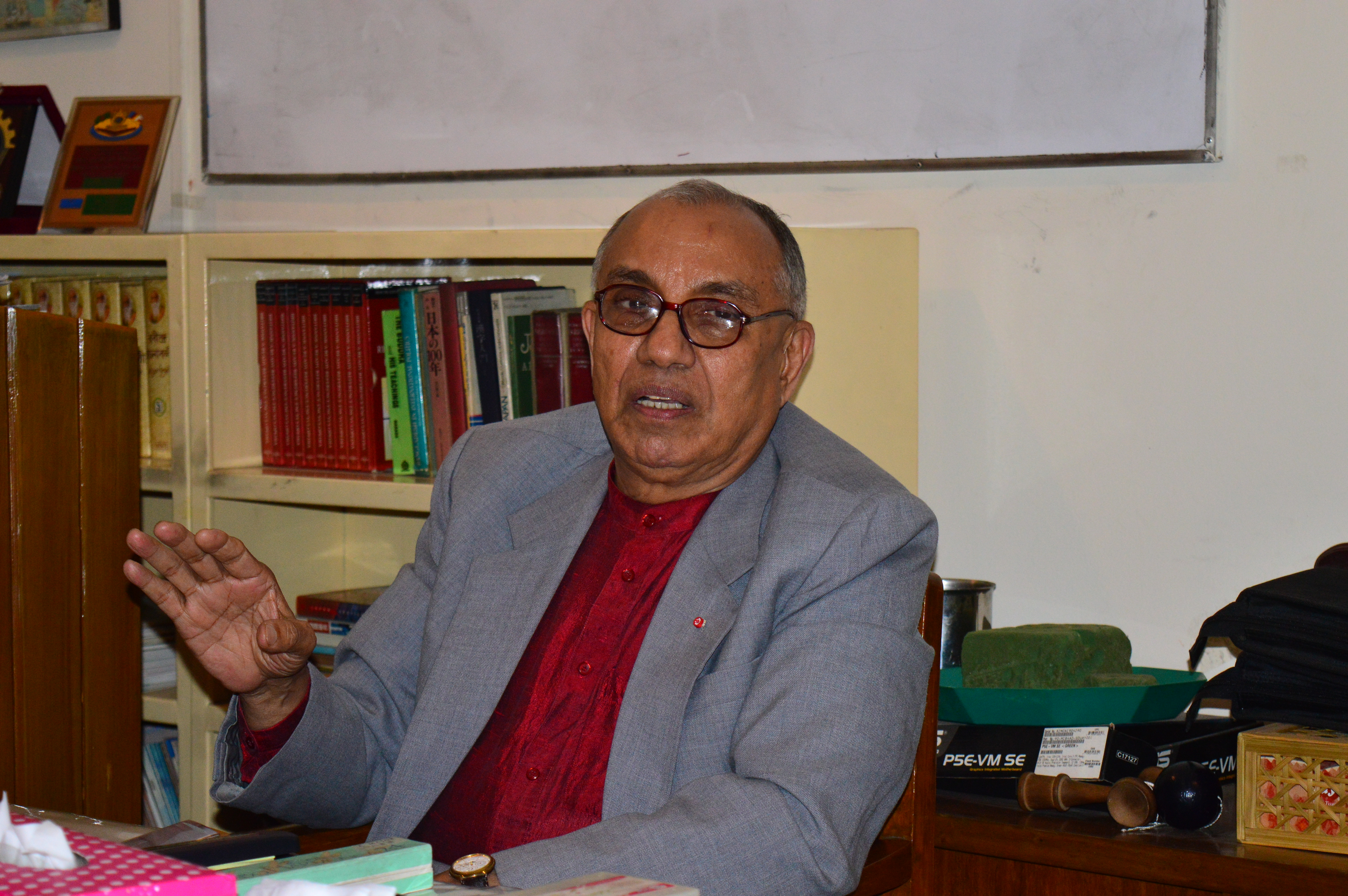 Muhammad Nurul Islam, honorary consul general of Japan in Chittagong, during Chittagong Wikipedia meetup, February 2015, Nippon Academy, Chittagong